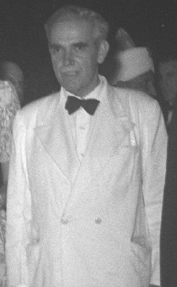 Eugène, the 11th Prince of Ligne and the then Belgian Ambassador to India at a reception given at the Chinese Embassy on October 10,1947 in New Delhi, the anniversary of the Chinese Republic.